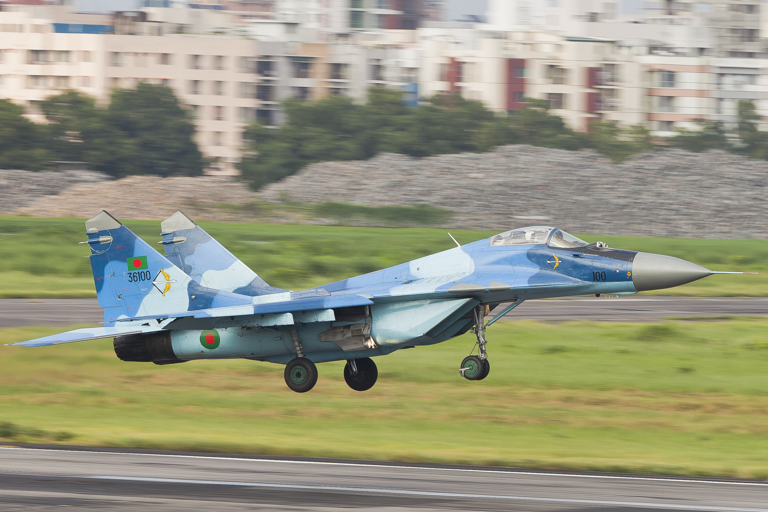 36100 Bangladesh Air Force MIG-29 Landing at Hazrat Shahjalal International Airport Dhaka - VGHS